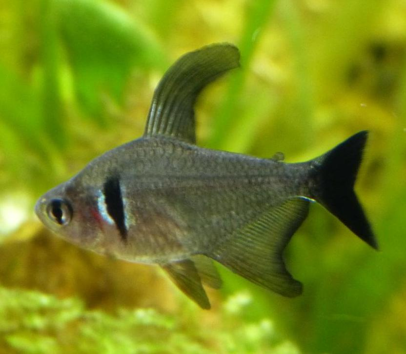 ブラックファントムテトラ